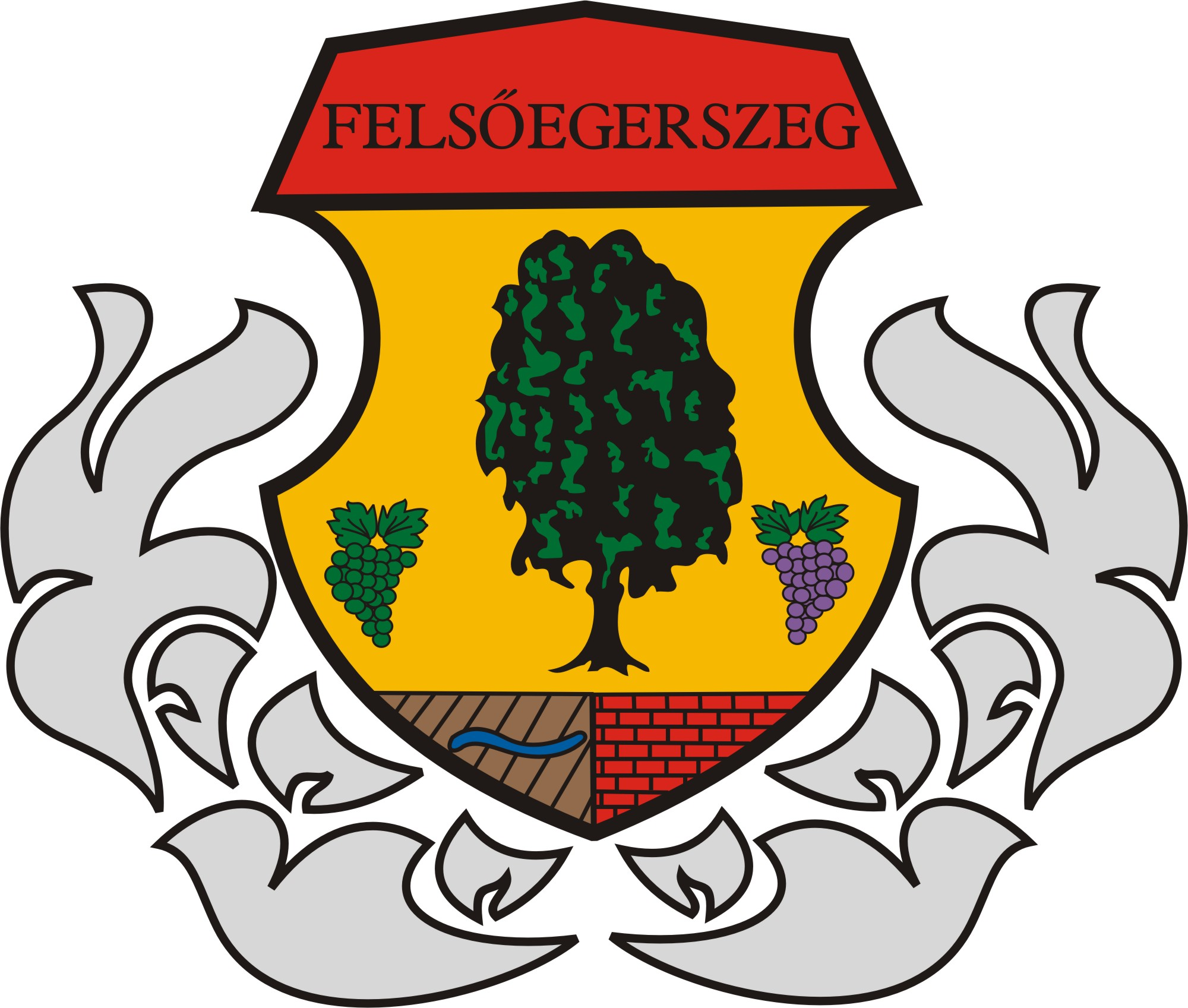 Coat of arms of Felsőegerszeg, Hungary